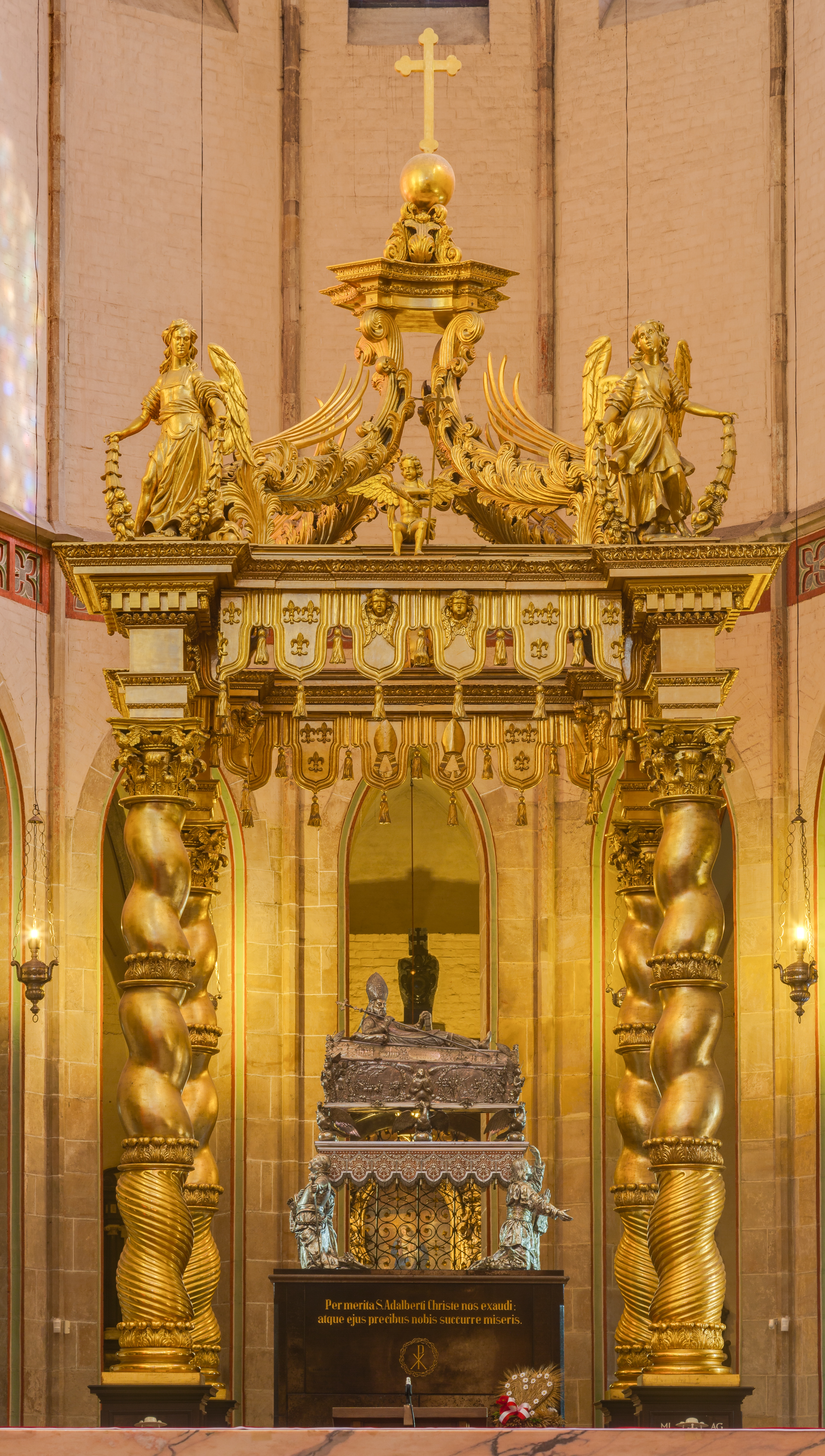 Silver relic coffin of Adalbert of Prague (956-997), Gniezno Cathedral, Gniezno, Poland. The coffin was made by Peter von der Rennen of pure silver in 1662 after the previous one, established in 1623 by King Sigismund III Vasa himself, was robbed by the Swedes in 1655, during the Swedish invasion. The Brick Gothic cathedral served as the coronation place for several Polish monarchs and as the seat of Polish church officials continuously for nearly 1000 years. Throughout its long and tragic history, the building stayed mostly intact making it one of the oldest and most precious sacral monuments in Poland.